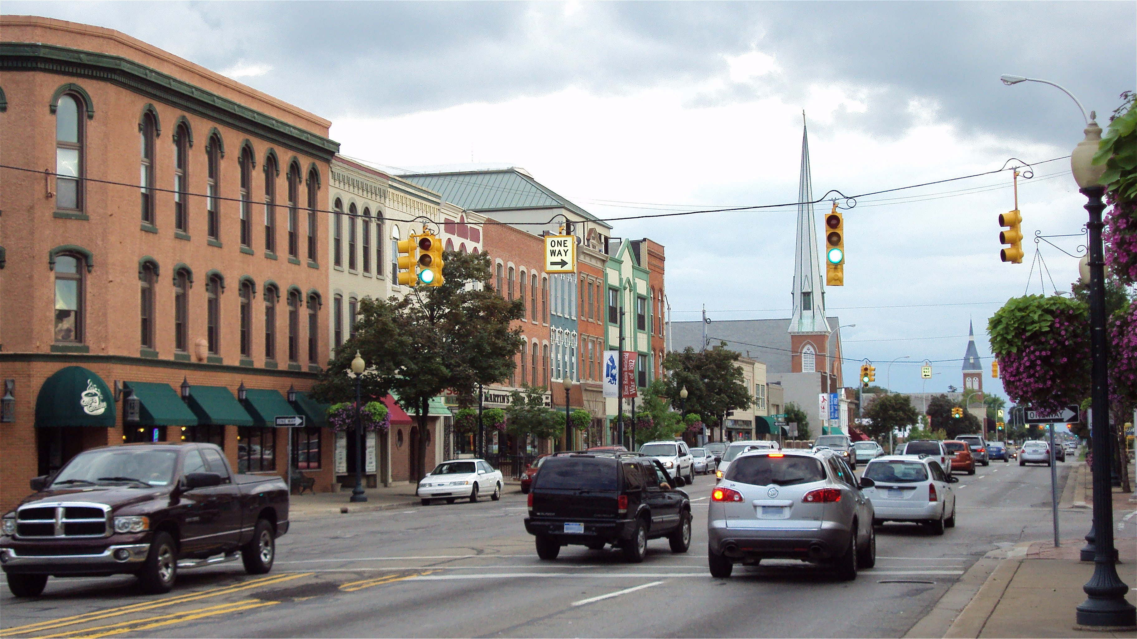 Just home of churches and pubs